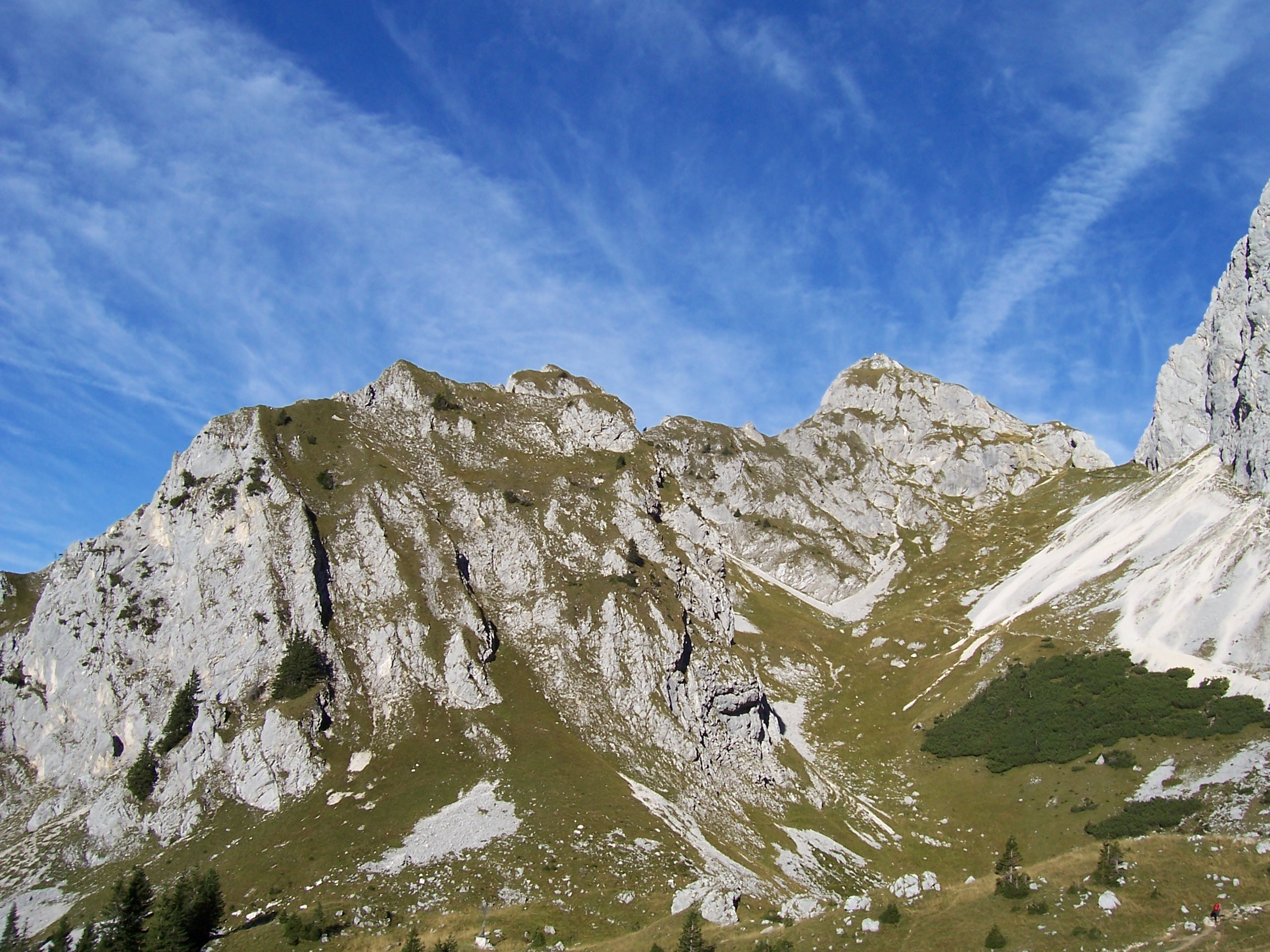 Rote Flüh, Austria, 2108 m